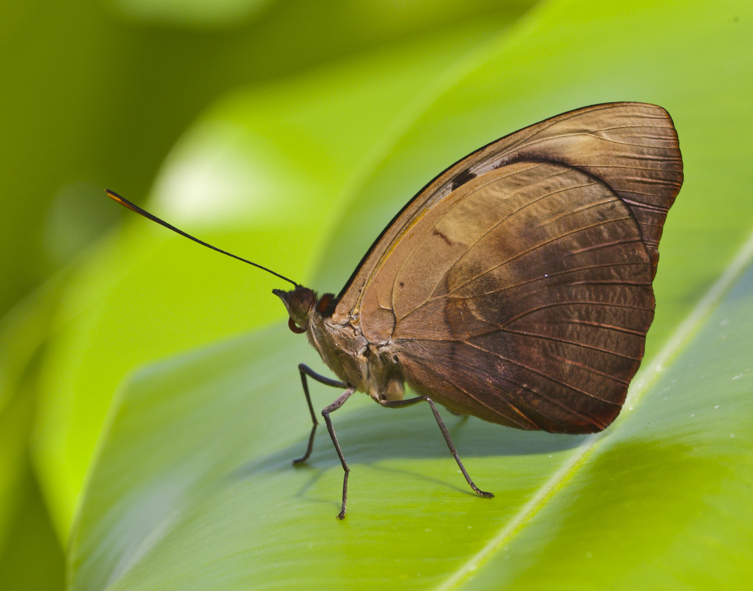 Junonia iphita, Munich Botanic Garden, Germany